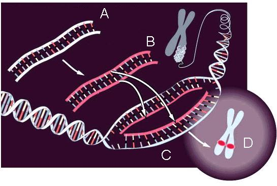 Internationalisation of the molecular biology FISH technique diagram: Fluorescent in-situ hybridization is a process which vividly paints chromosomes or portions of chromosomes with fluorescent molecules. This technique is useful for identifying chromosomal abnormalities and for gene mapping.